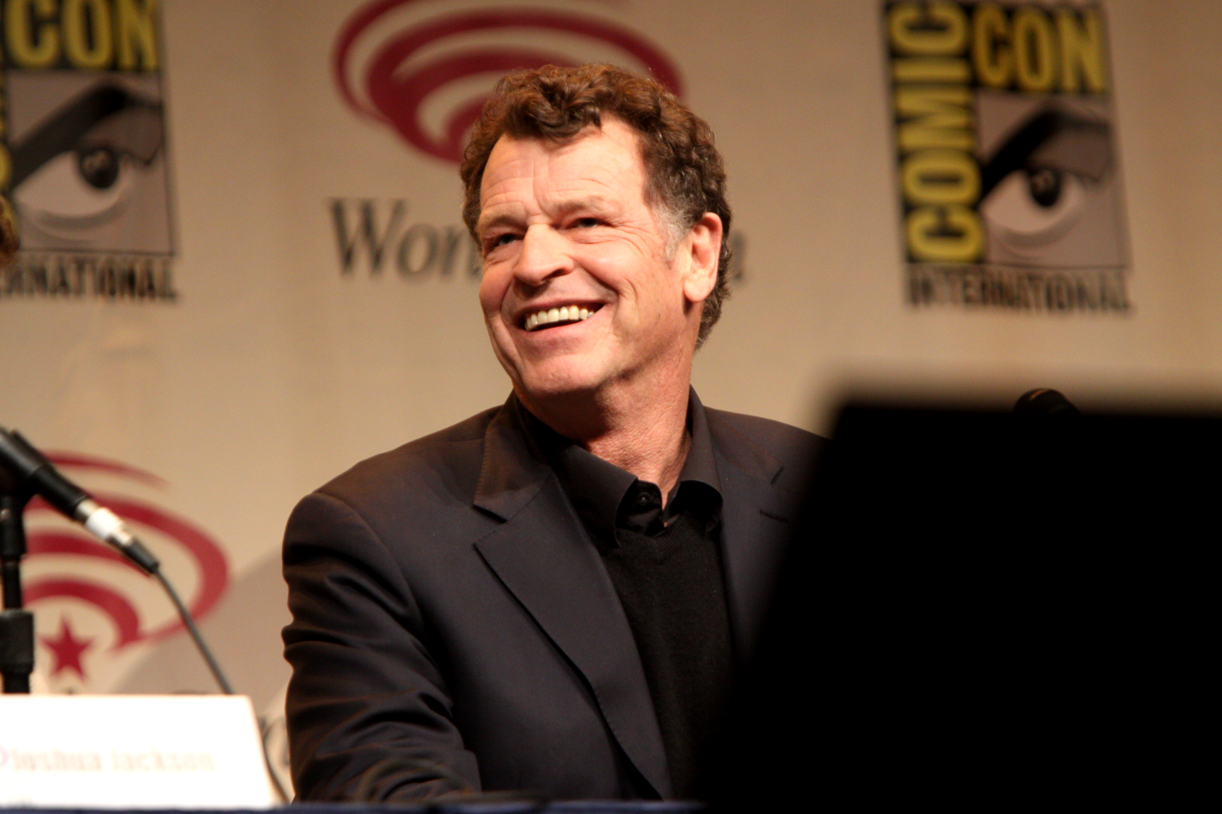 John Noble speaking at the 2012 WonderCon in Anaheim, California.